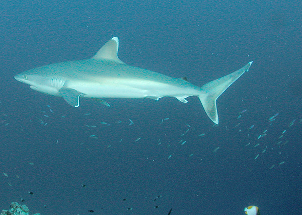 Silvertip Shark, New Hanover Island, Papua New Guinea. Image taken by Clark Anderson/Aquaimages.